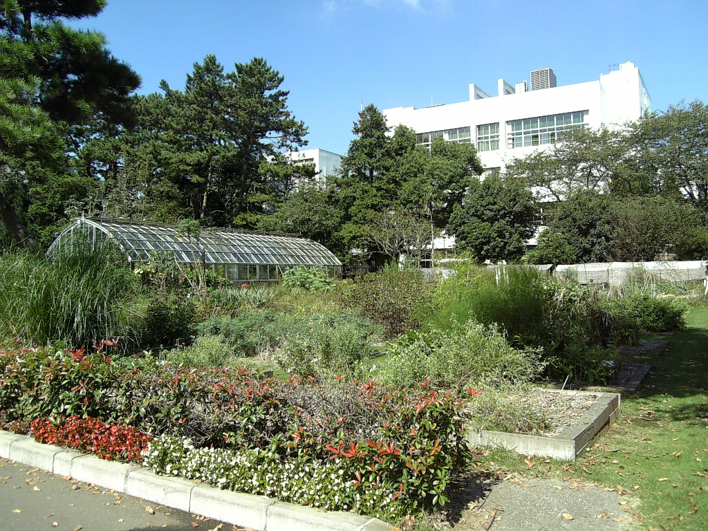 Toho University medical herb garden.